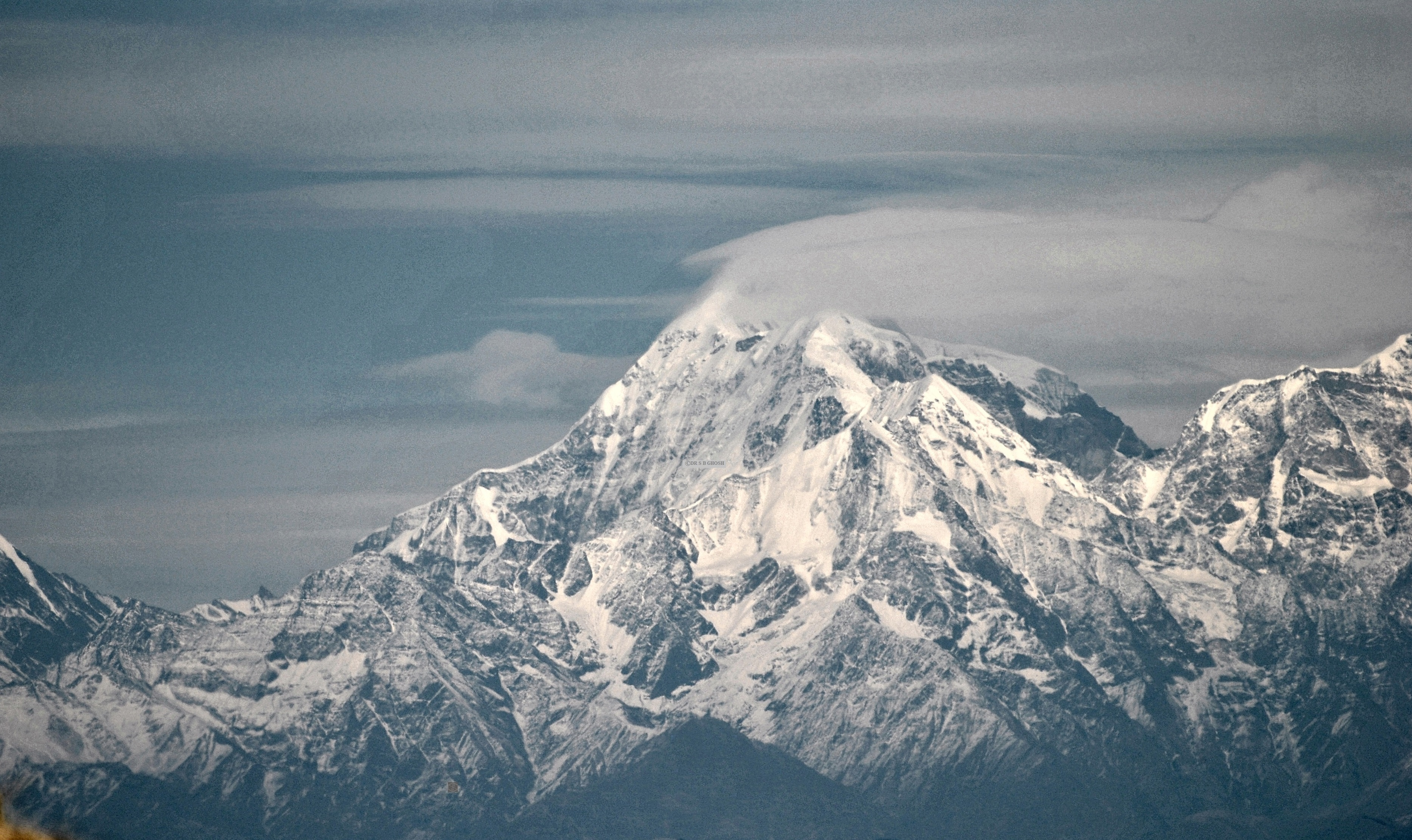 Sunset events on the Trisul peak on Himalayas at Nandadevi - Panchachulli range, within the time span of 17.15 hours to 17.30 hours as seen during November, from Kausani, Uttarakhand, India